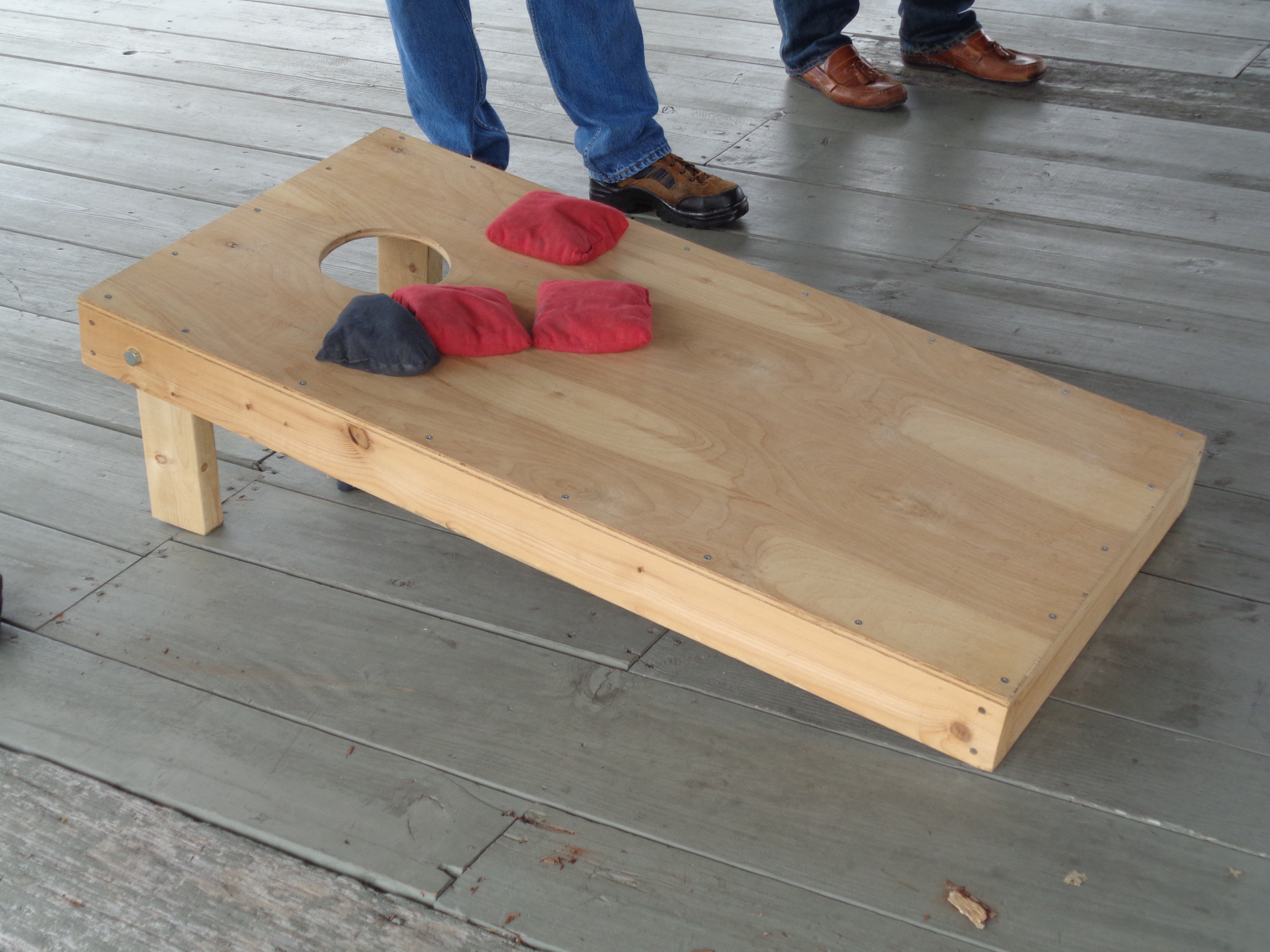 Cornhole, Homerville